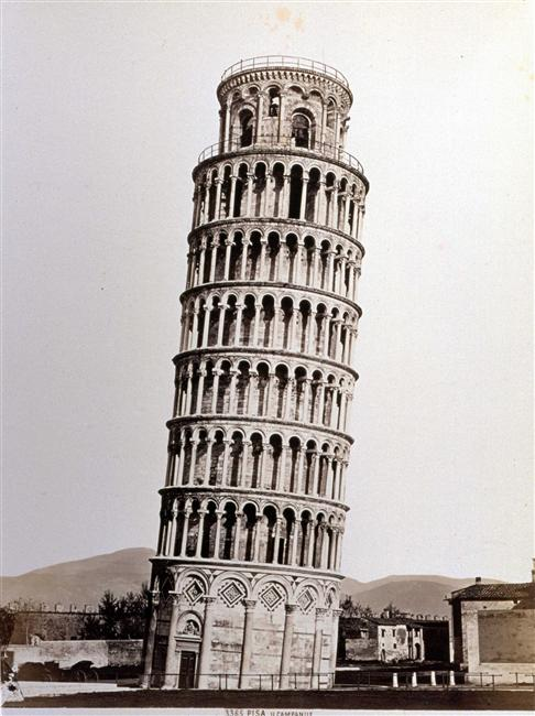 Giacomo Brogi (1822-1881), "Pisa - The Leaning Tower". Catalogue # 3365.